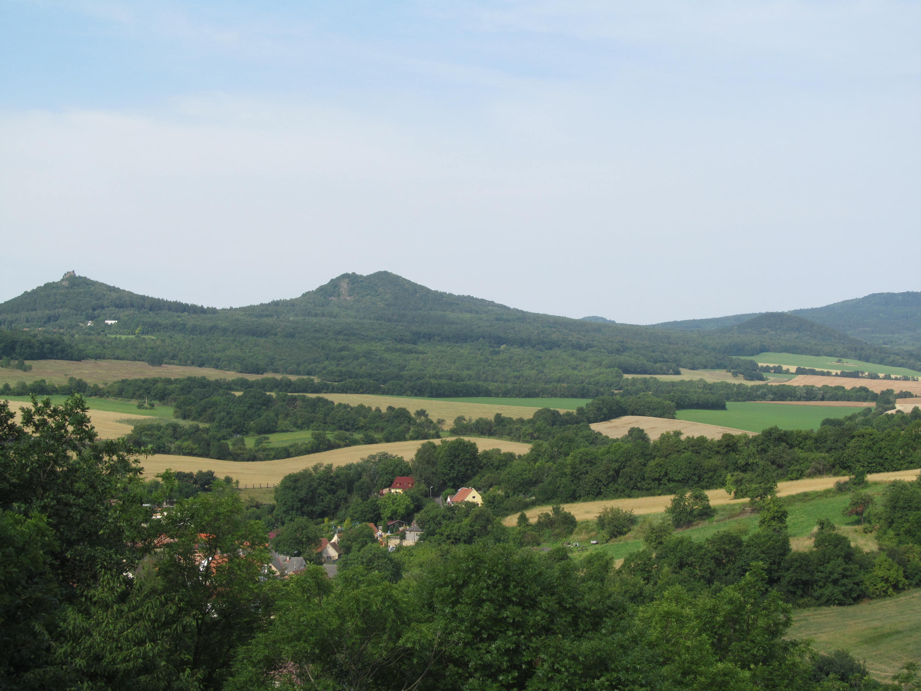 Vlastislav fort hill from Skalka castle (left) Oltářík castle behind